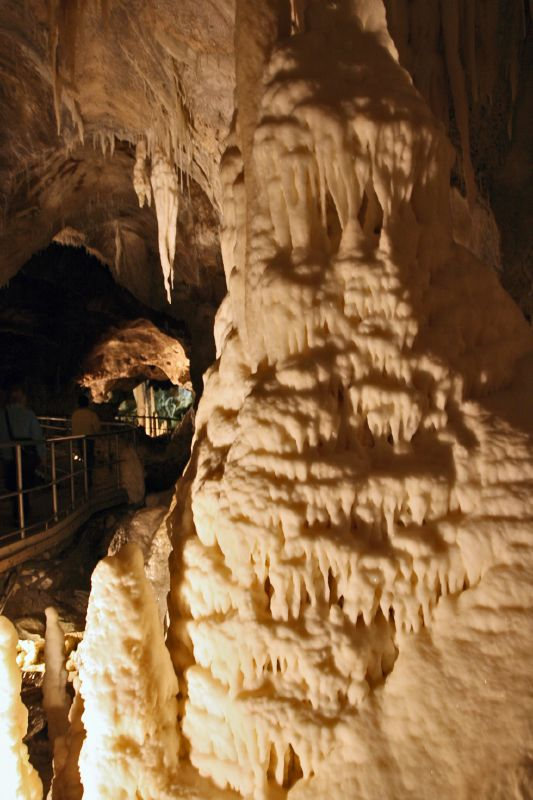 Genga, Marche, Italia